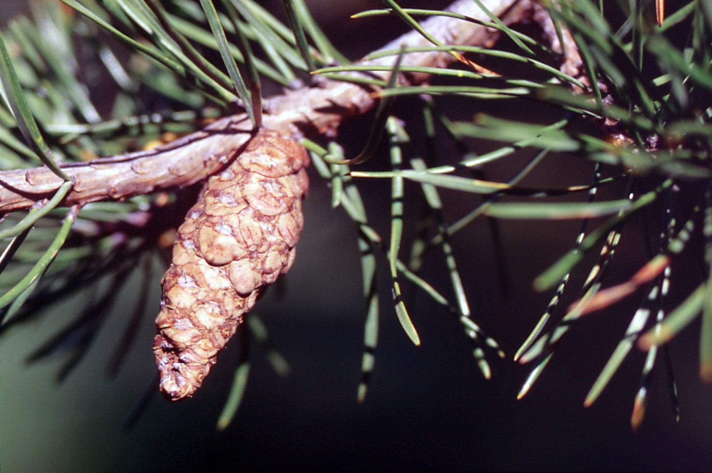 Jack Pine, cone.